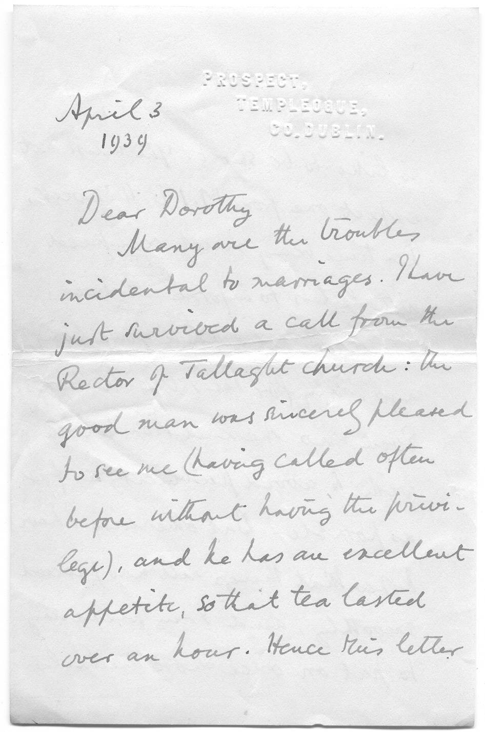 First page of a letter from Edward Gwynn to his daughter-in-law, April 1939.